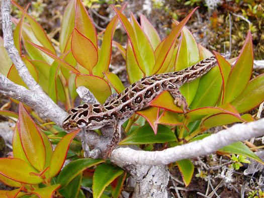 Harlequin gecko among foliage on Stewart Island/Rakiura.